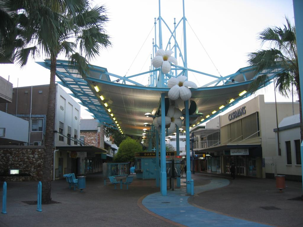 Smith Street Mall, Darwin, Northern Territory